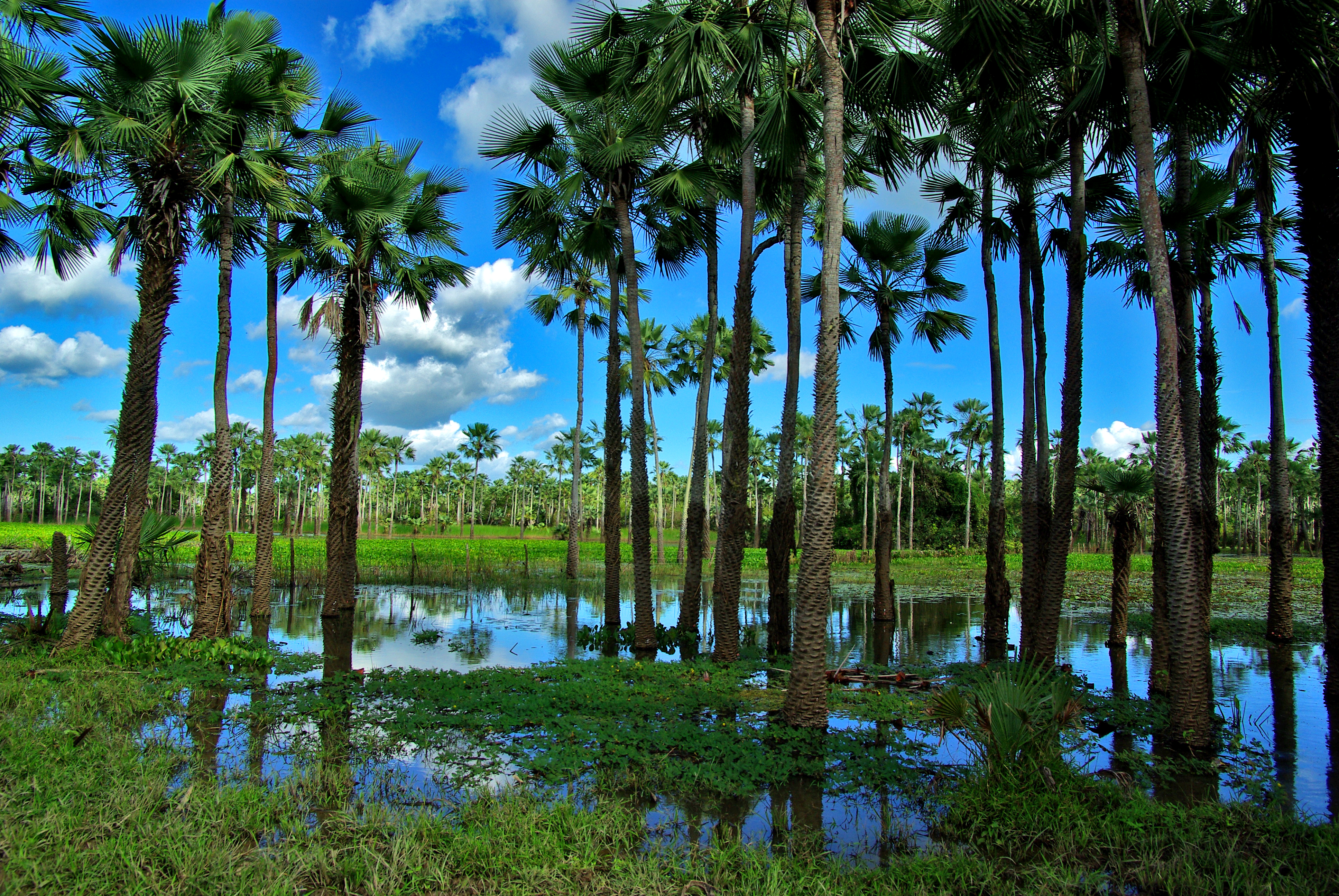 Carnaúbas no Ceará